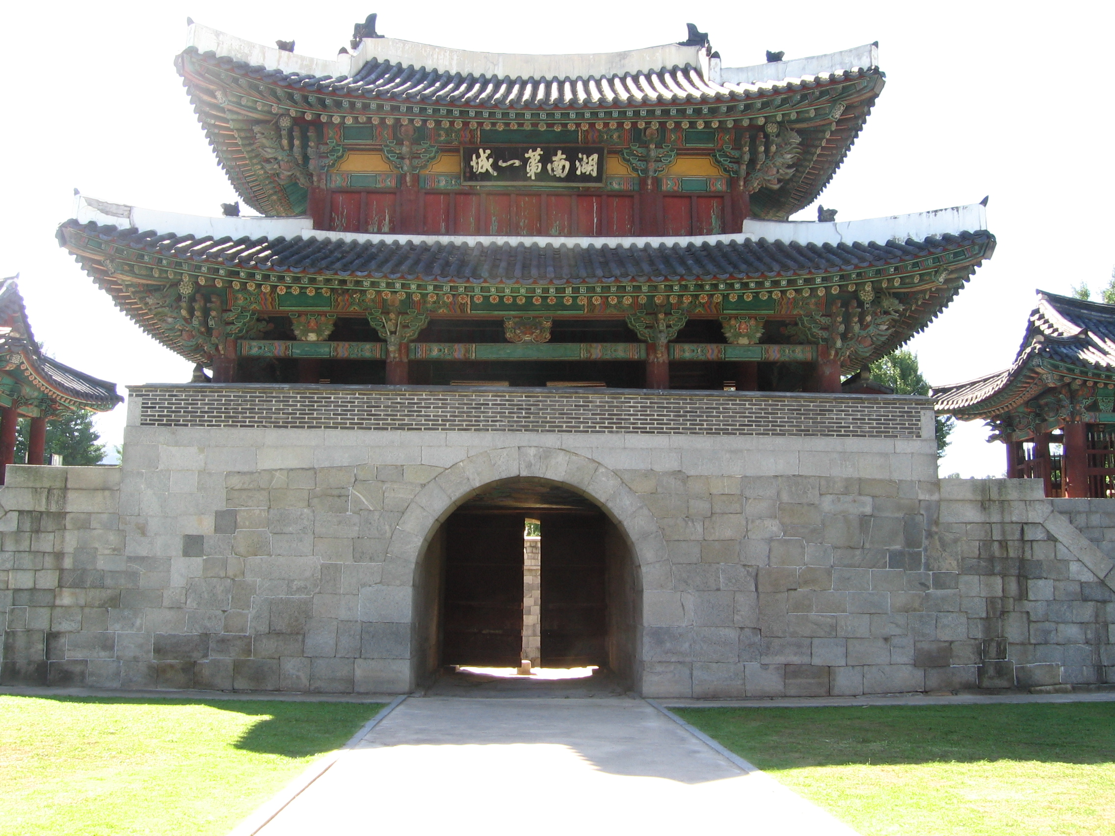 The South Gate of Jeonju, called Pungnam-mun. Taken by myself (Johannes Barre, iGEL (talk)) on 2005 September 07